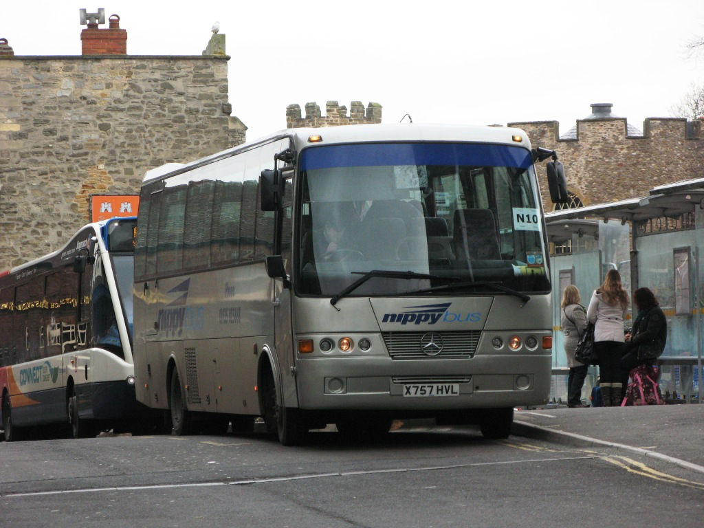 Ferqui Solera C35F bodied Mercedes-Benz O1120L coach X757HVL from the Nippy Bus fleet waits in Castle Grren, Taunton, to start its journey home to Martock, Somerset.